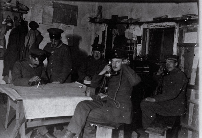 Franz Rosenzweig (1886-1929), philosopher and theologian, with unidentified soldiers.